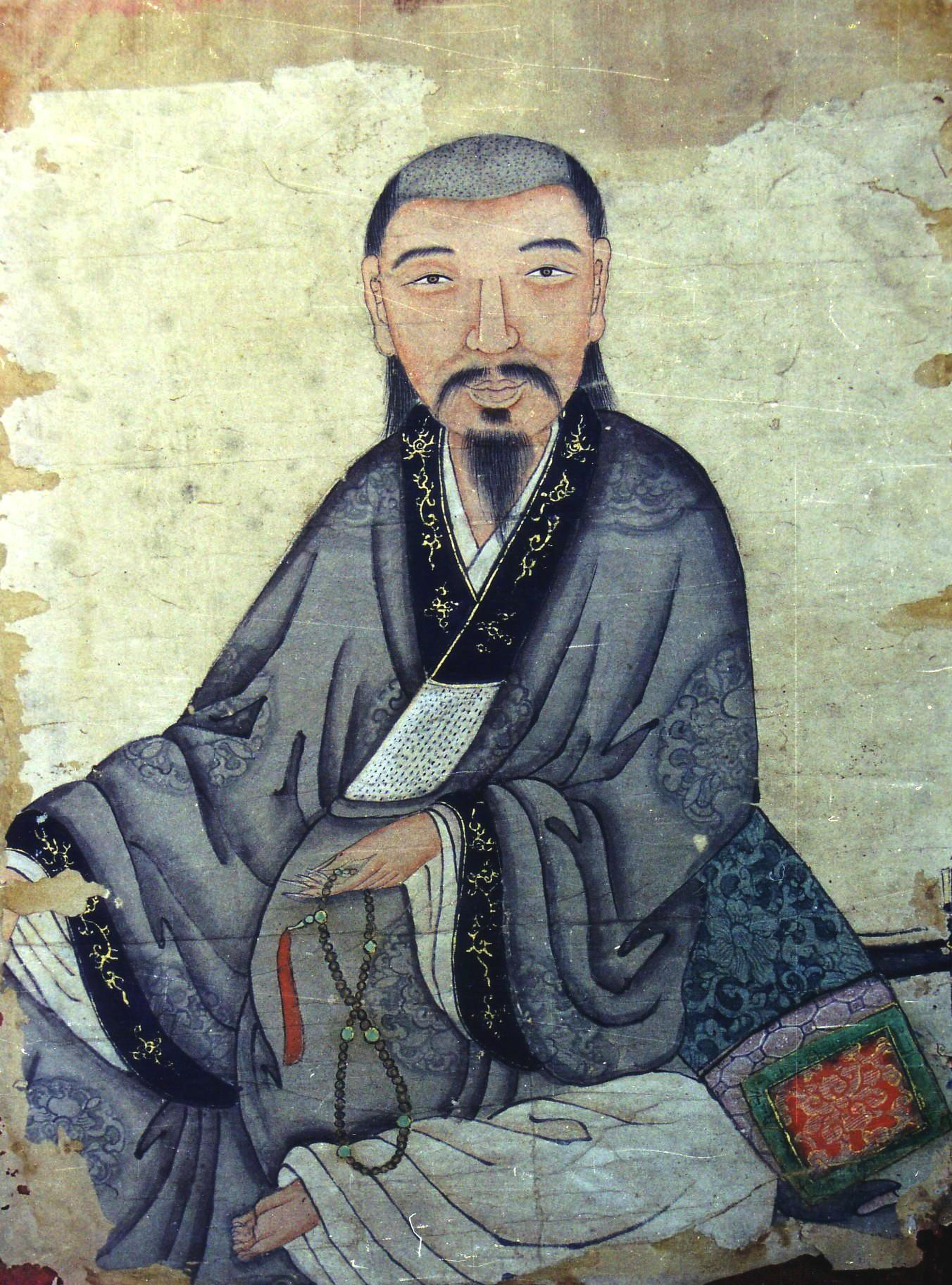 A portrait from the 17th-century of Duke Tôn Thất Hiệp (尊室協, 1653 - 1675) which is displayed at a temple in Hue, Vietnam.